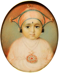 The Toddler Chikka Veera Raja, Son of Linga Raja II